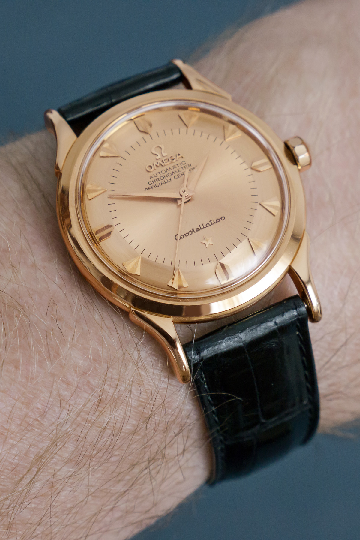 Omega Constellation - Rosegold - 1958